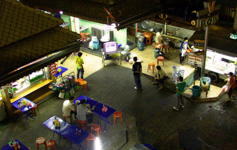 Citizens in Bangkok are glued to their television sets throughout the New Year holidays. This image is taken at the Victory Monument, just a few hundred yards from the actual blast sites of one of the bombs the night before. Image provided by Manik Sethisuwan 21:19, 3 February 2007 (UTC), The Sethisuwan Group (January 2007).